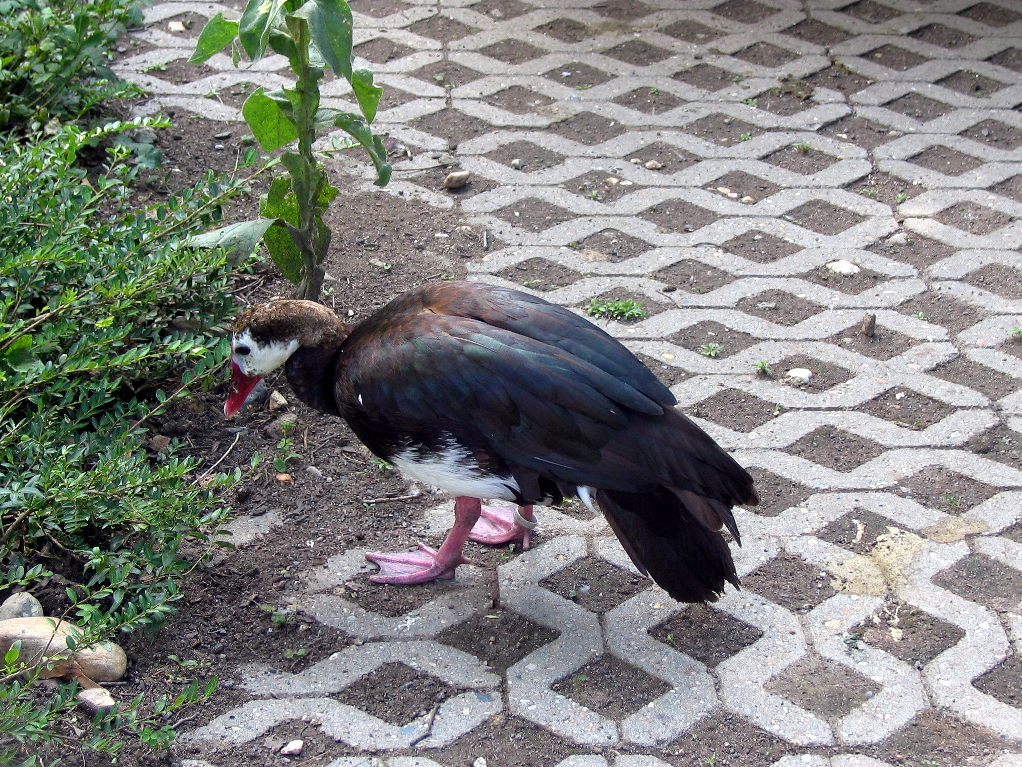 Spur-winged Goose